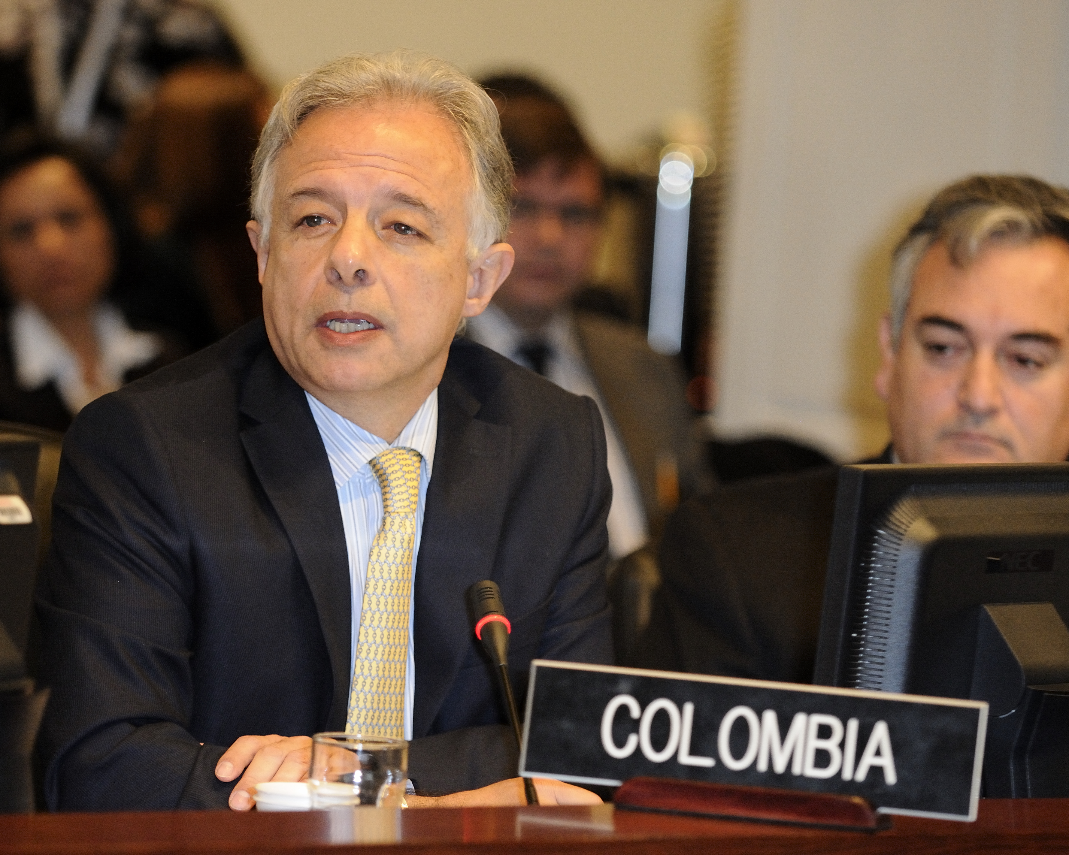 Andrés González Díaz, Ambassador, Permanent Representative of Colombia to the OAS Date: October 31, 2012 Place: Washington, DC Credit: Juan Manuel Herrera/OAS